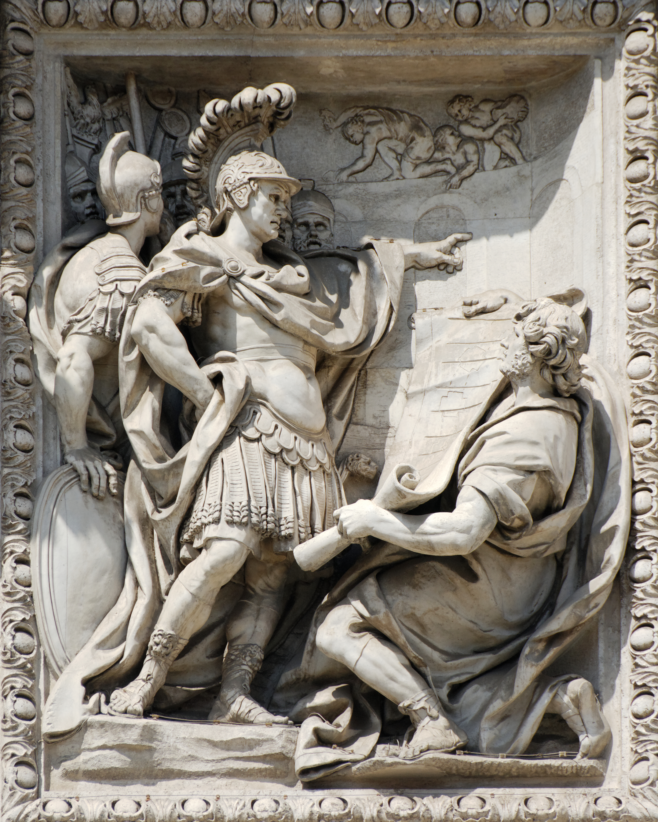 Agrippa approves the building of the Aqua Virgo, relief above the Trevi Fountain, Rome.